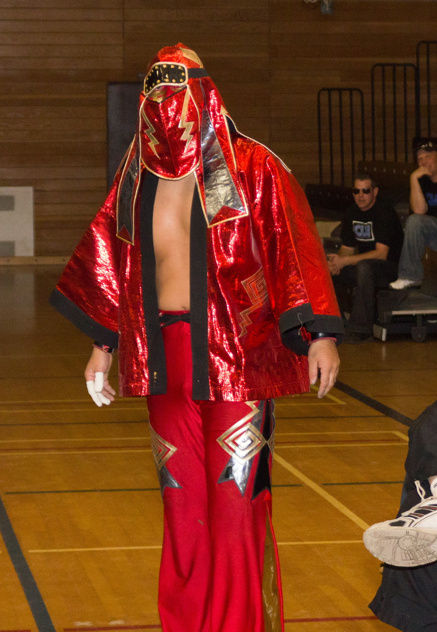 Wrestler Kiyoshi (real name Akira Kawabata) making his way to the ring at a Maximum Pro Wrestling show in Collingwood, Ontario